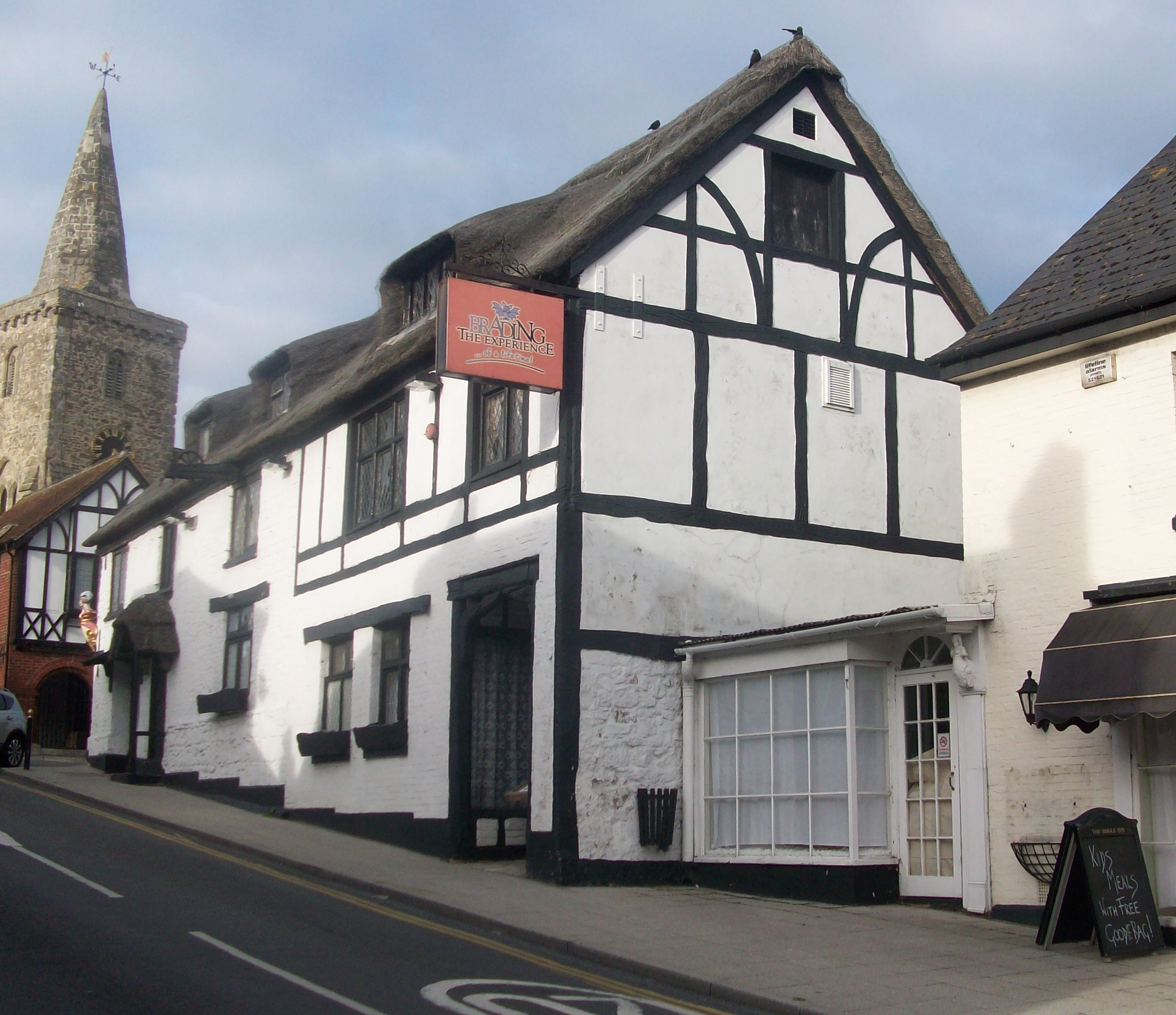 A view of the closed Waxworks in August 2010.